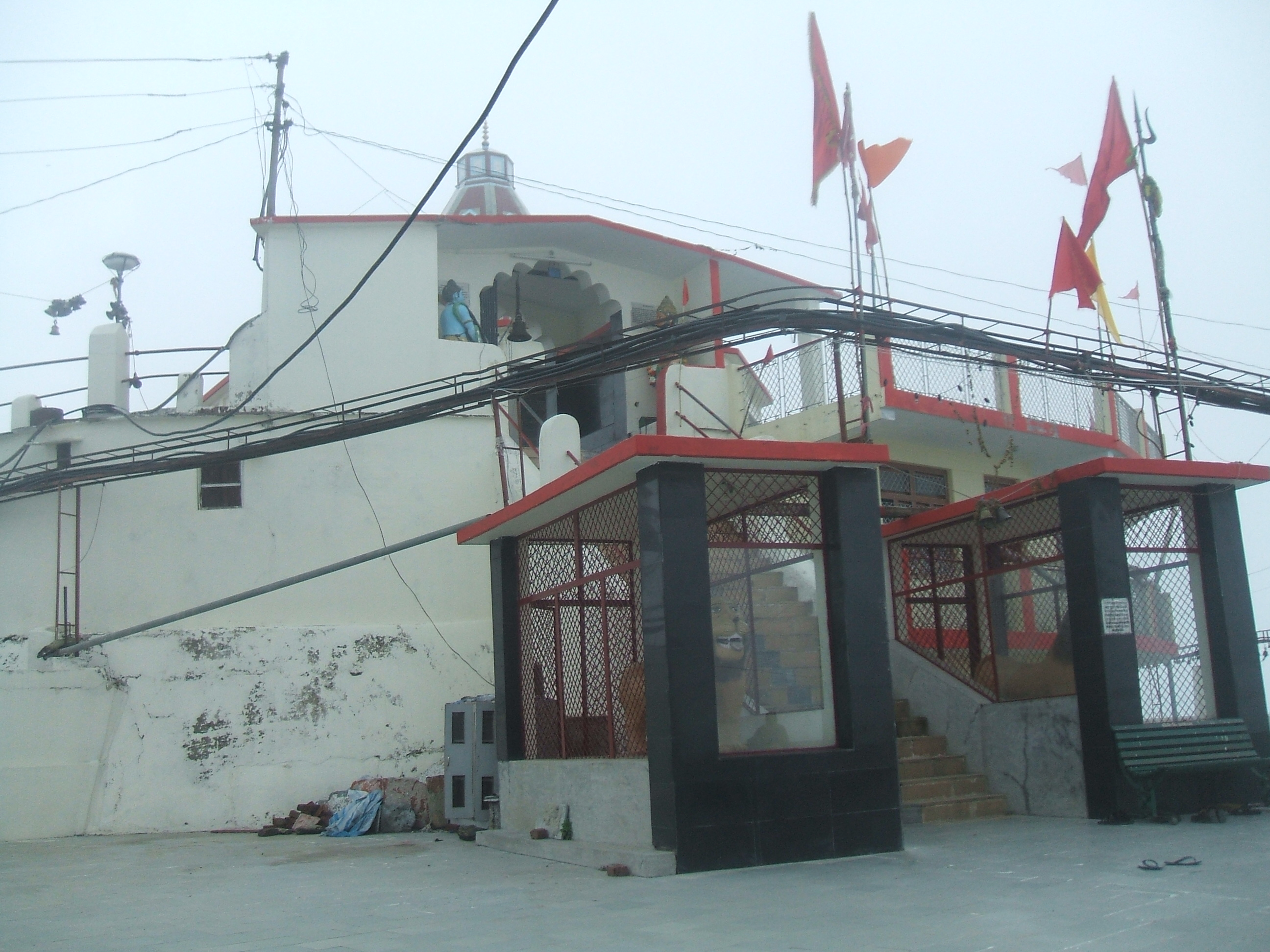 Entrance of the mata chandrabadni temple